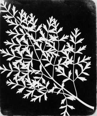 A so called "Photogenic Drawing", a preliminary stage of early photographs.